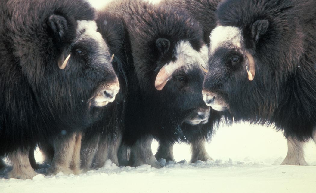 Muskoxen in Yukon Delta National Wildlife Refuge